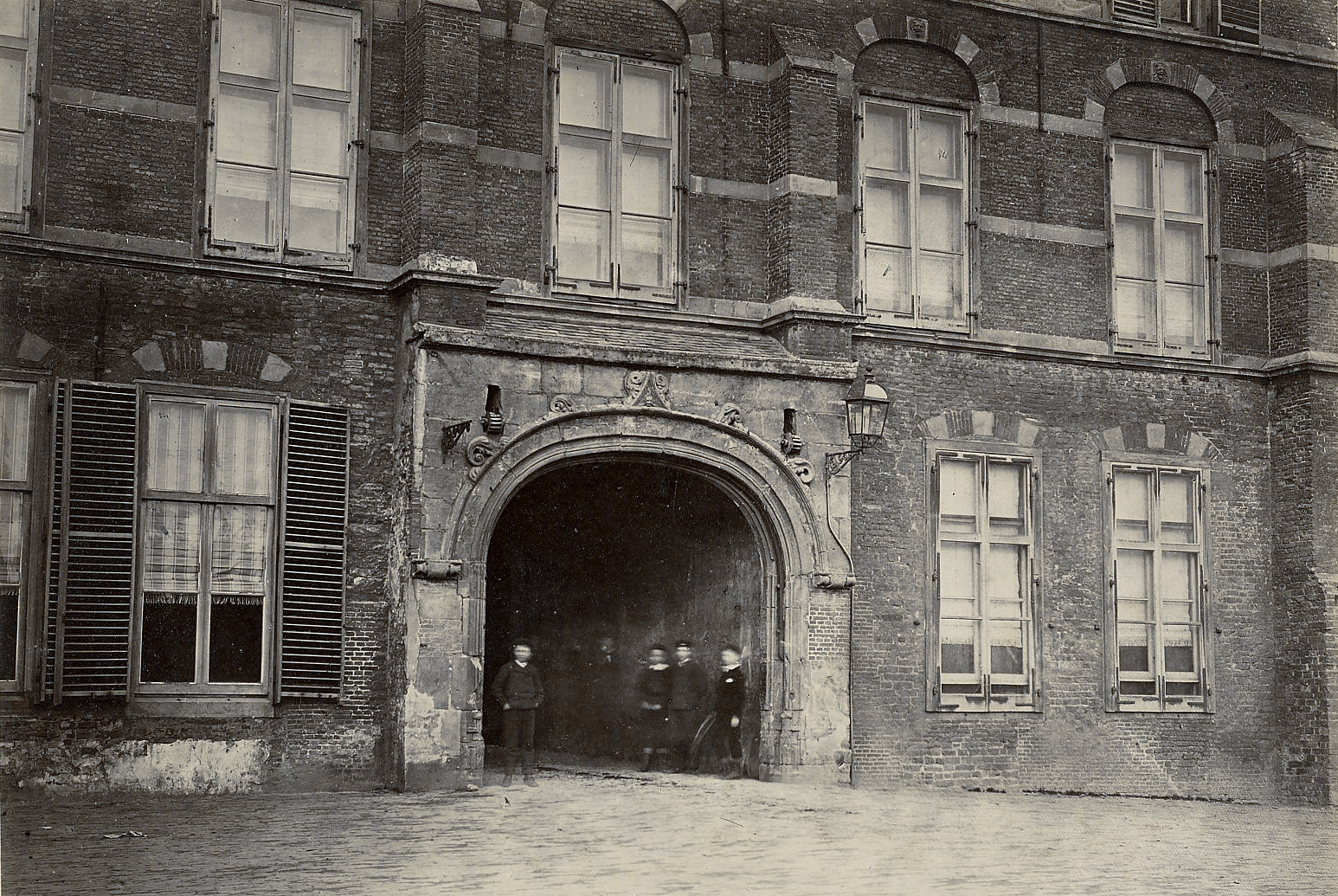 Stadtholders Gate in The Hague, the Netherlands, before the renovations of 1879.